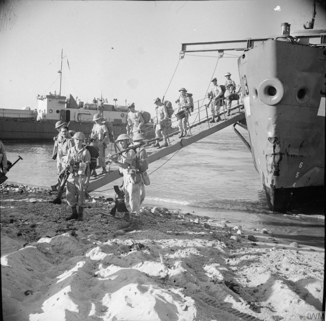 The Allied Landings in Italy, September 1943- Reggio, Taranto and Salerno Reggio, 3 September 1943 (Operation Baytown): Infantry come ashore from landing craft at Reggio.